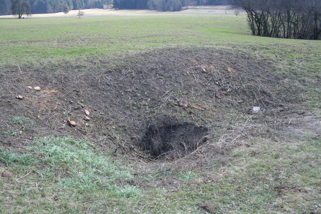 Estavela in Radensko karst field, Slovenia.